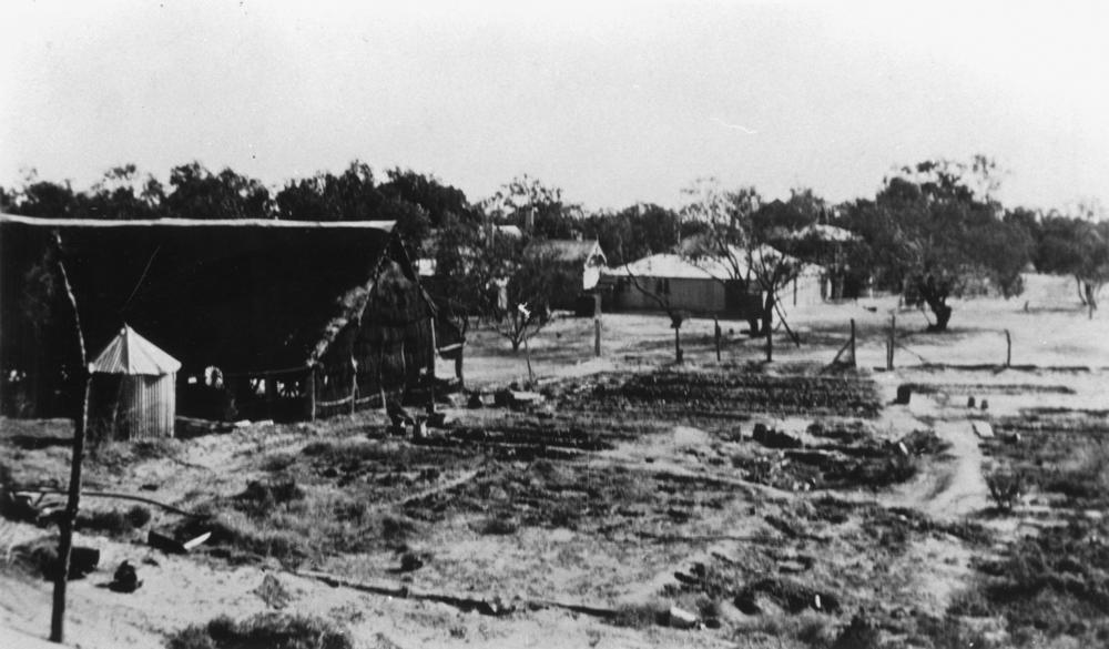 Buildings and gardens at Currawilla Station, Western Queensland, 1929